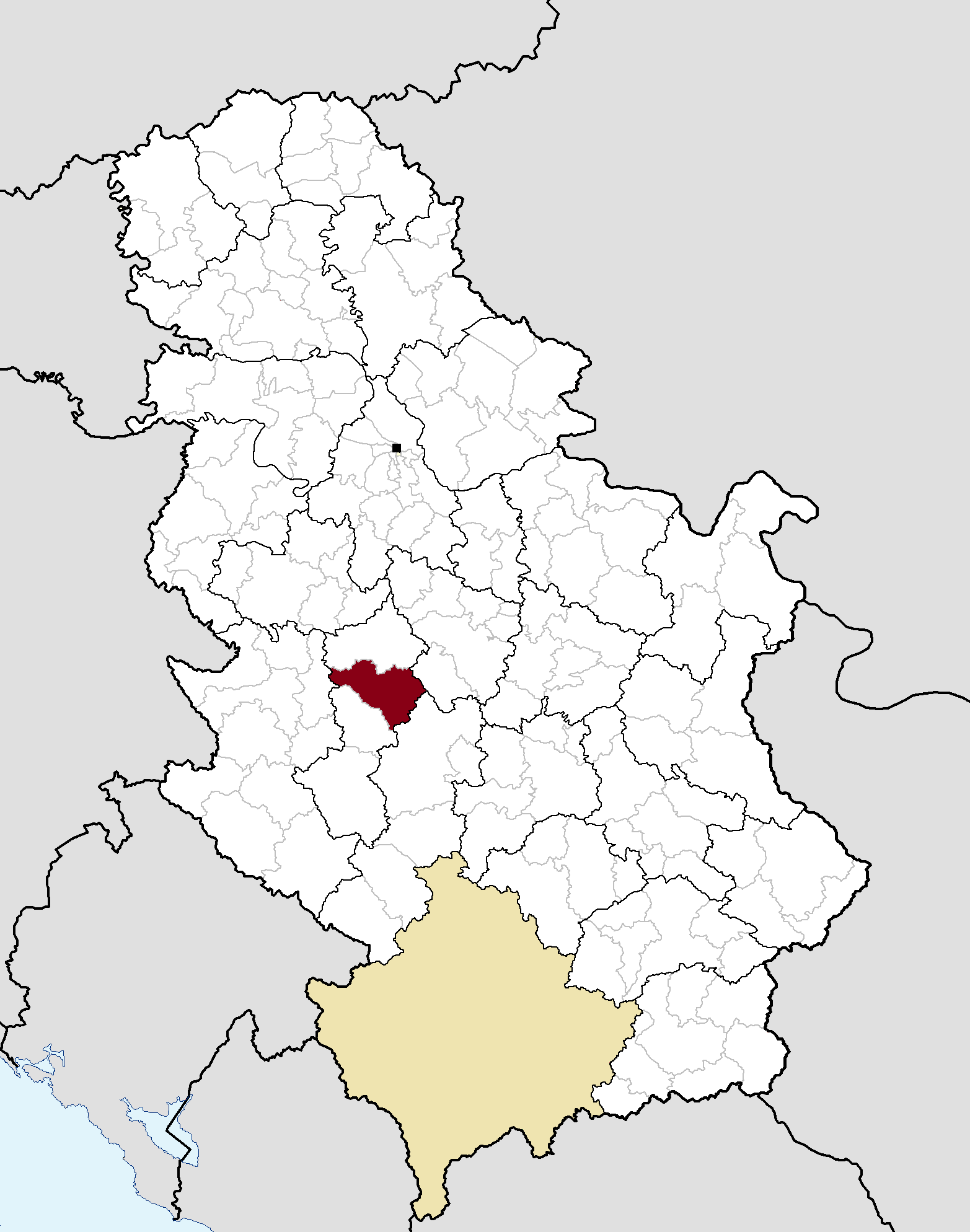 Municipal location in Serbia